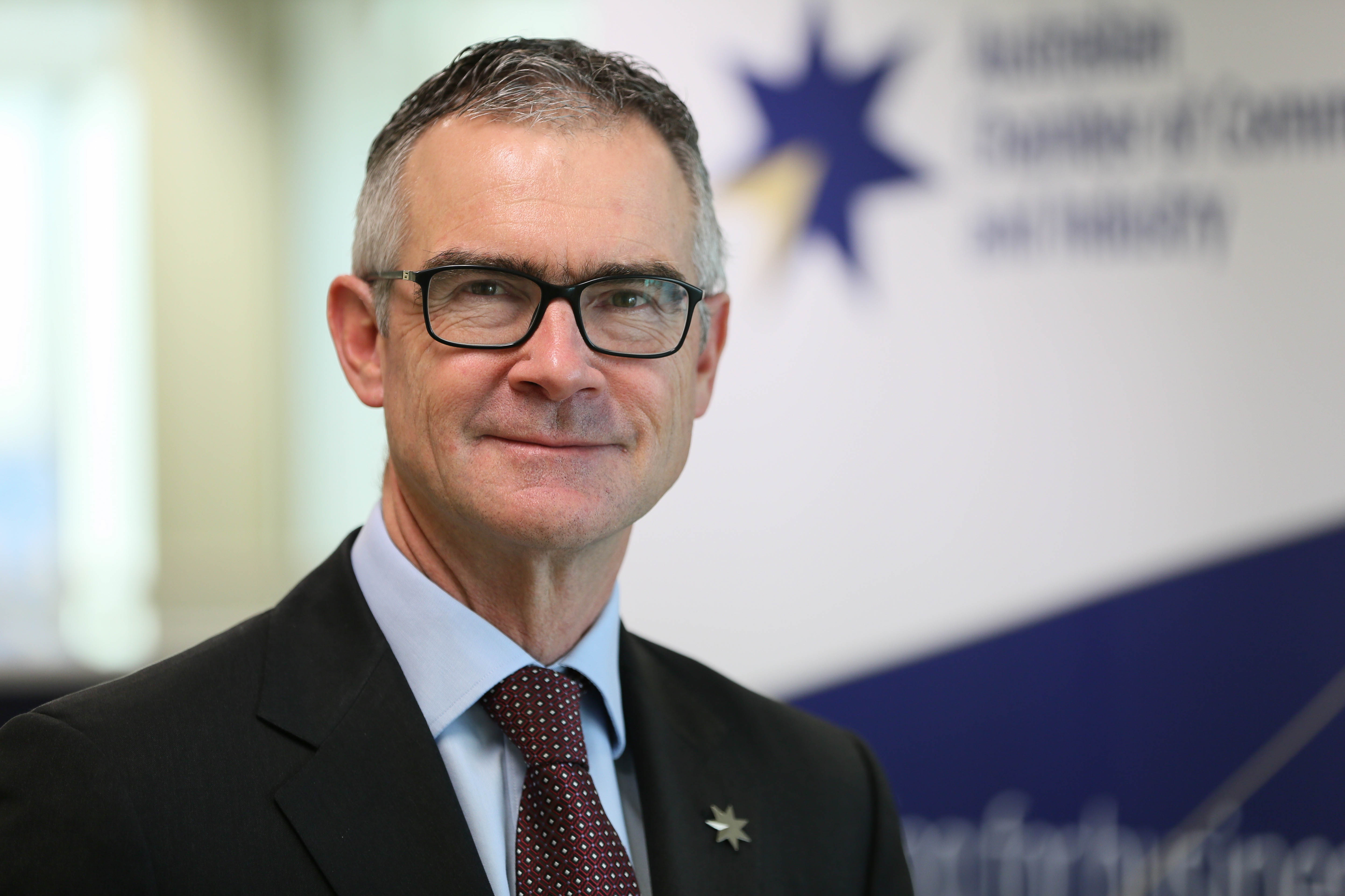 Portrait photo of James Pearson, CEO of the Australian Chamber of Commerce and Industry